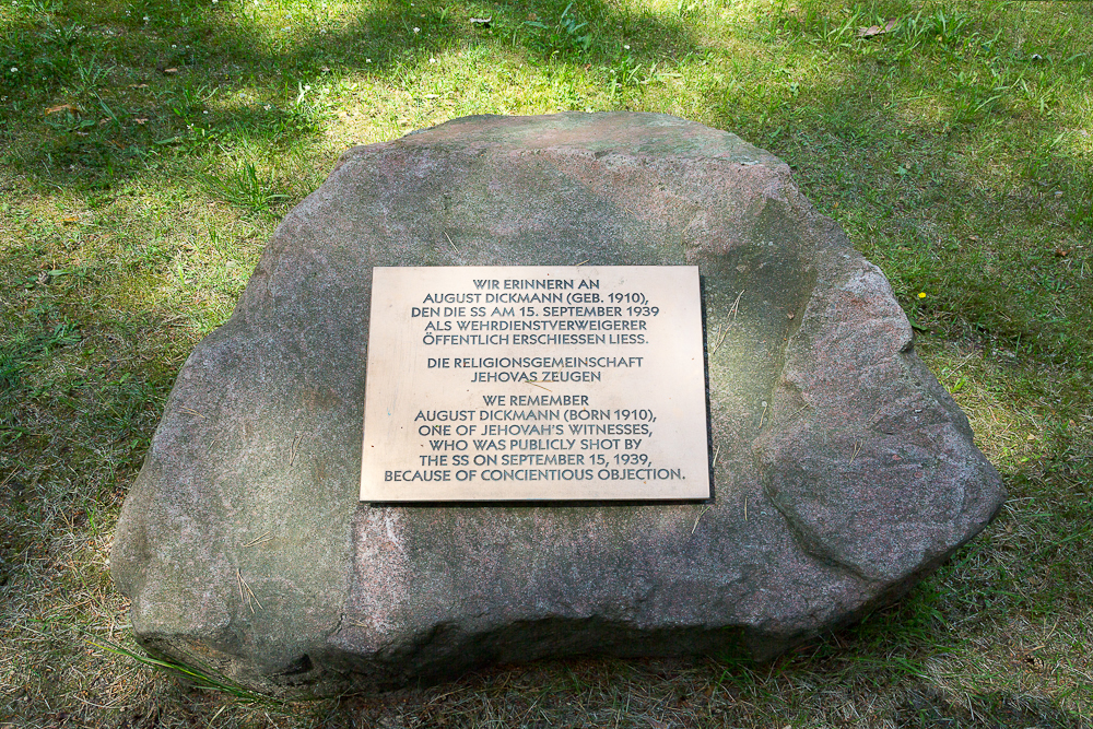 Jehovah's Witness August Dickman shot by the SS in 1939